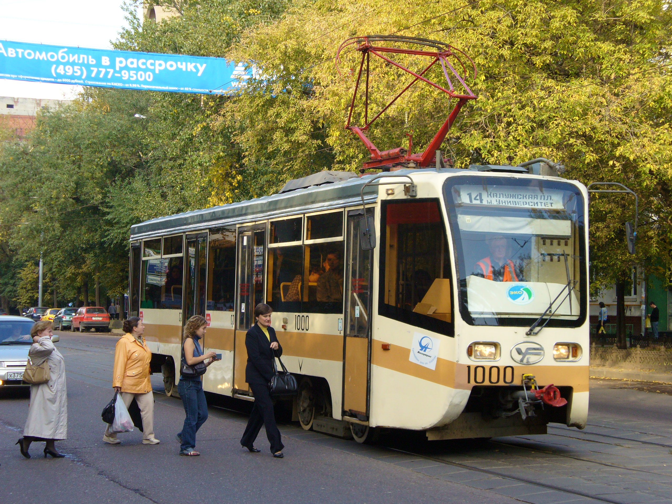 Class 71-621 by UKVZ. Simlar 71-619K, but with some shorter body for old sheds of Apakovskoye depot. Only one vehicle was produced.